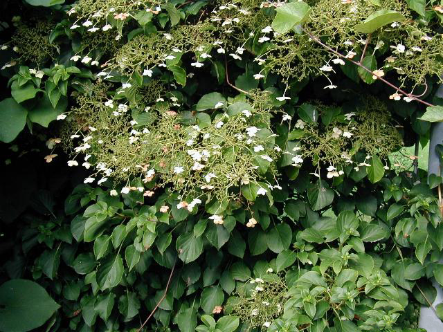 Hydrangea petiolaris (synonym: Hydrangea anomala subsp. petiolaris). Flower and foliage close-up. photo by Bruger:Sten.